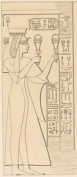 Queen Duathathor-Henuttawy of Ancient Egypt